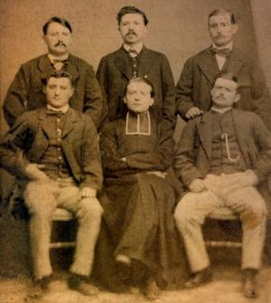 Old photography